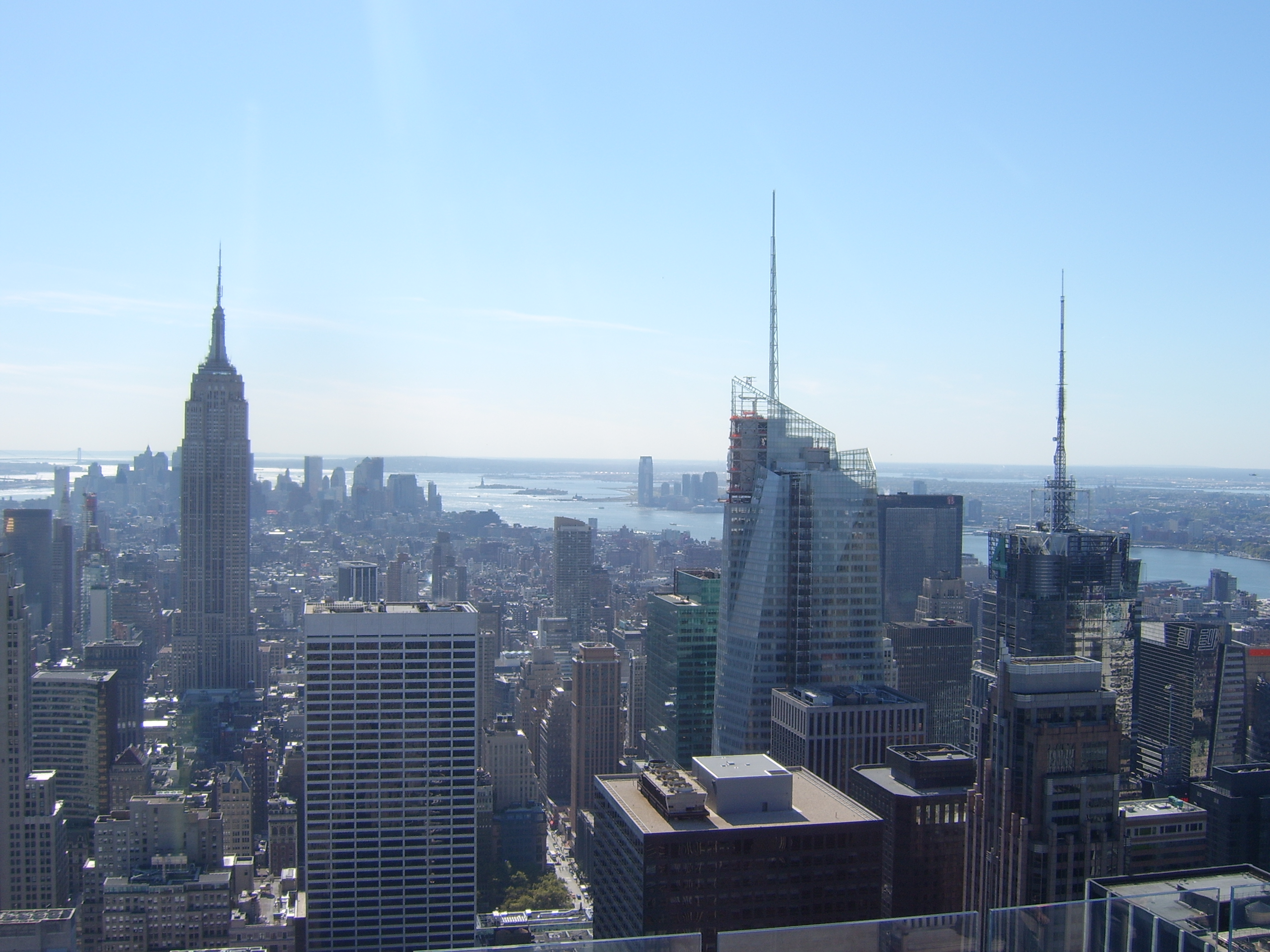 Category:Manhattan, New York City